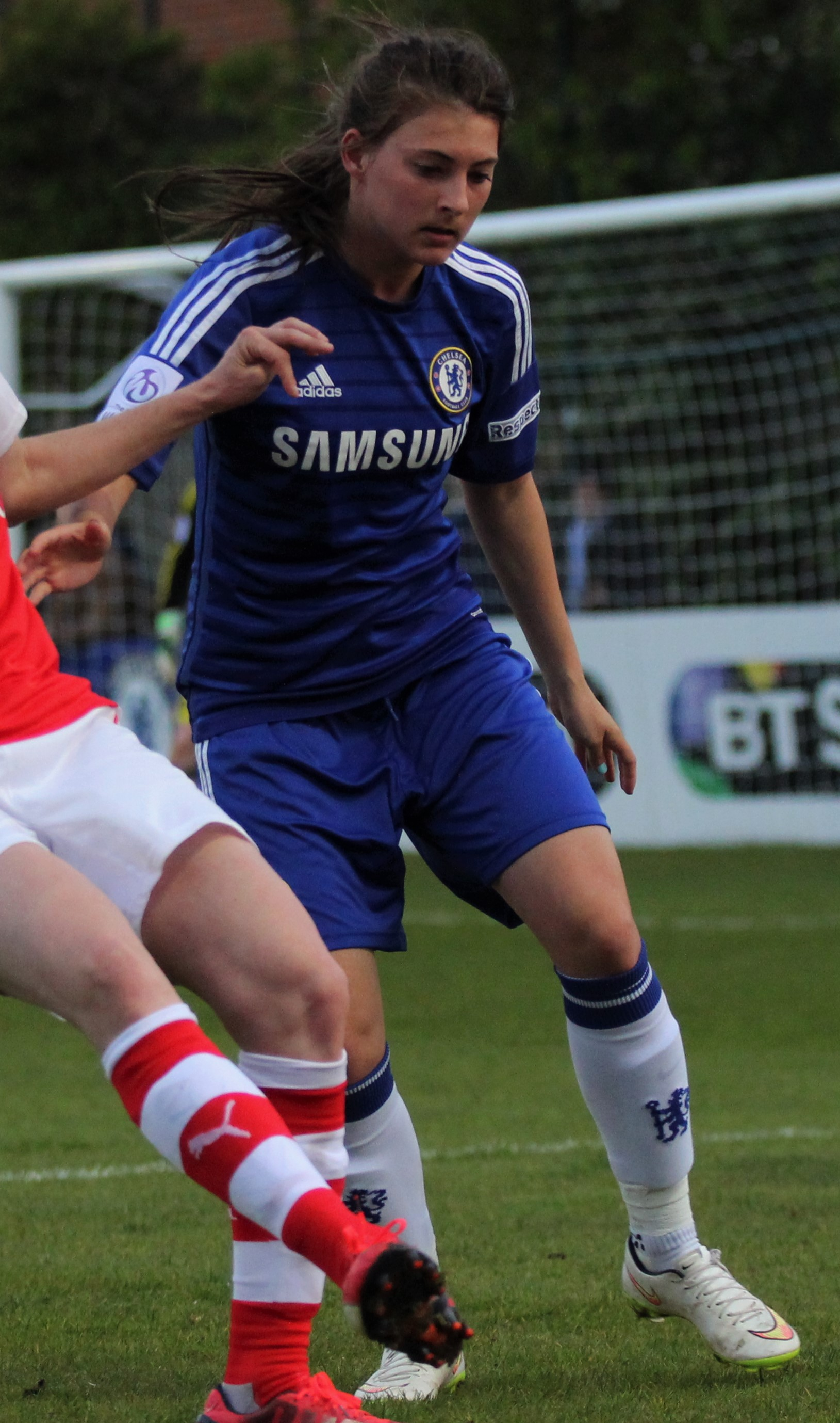 Natalia Pablos Sanchon of Arsenal Ladies passes the ball, defender by Hannah Blundell of Chelsea